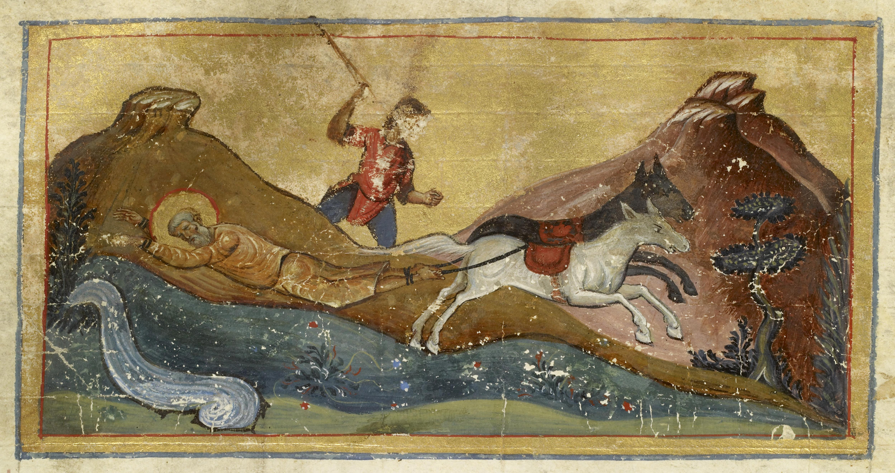 This folio shows the martyrdom of Saint Zotikos, a priest in the city of Constantinople who dedicated himself to helping the sick. Although he enjoyed the favor of the emperor Constantine I (r. 306-337), Zotikos drew the enmity of Constantine's son and successor, Constantius II (r. 337-361) who had the pries killed by being dragged behind mules. According to legend, Zotikos saved hundreds of lepers who had been condemned to die in order to avoid contamination.